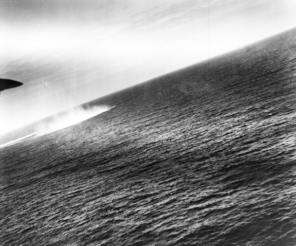 BAY OF BISCAY, 1943-07-30. DEPTH CHARGE ATTACK ON GERMAN SUBMARINE U-461 BY SUNDERLAND AIRCRAFT "U" OF NO. 461 SQUADRON RAAF. THIS U-BOAT IS ONE OF THREE ATTACKED BY SUNDERLAND "U" OF 461 SQUADRON RAAF, HALIFAX "B" OF 502 SQUADRON RAF AND LIBERATOR "O" OF NO. 53 SQUADRON RAF. THE SUBMARINES U-461, U-462 AND U-502, ALL TYPE XIV SUBMARINE TANKERS, WERE SUNK IN THIS ACTION. THIS PHOTOGRAPH WAS TAKEN FROM SUNDERLAND "U".